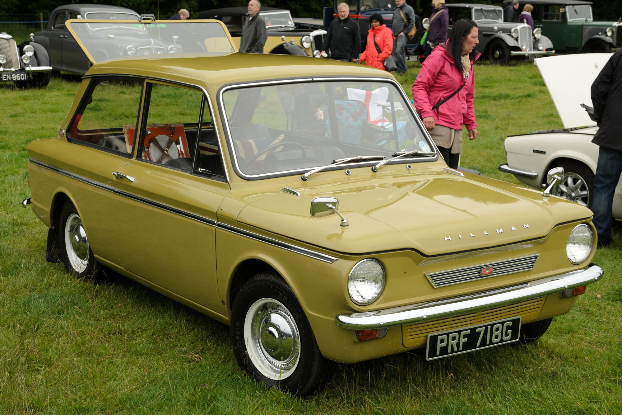 Hoghton Tower Classic Car Show 14/06/2015